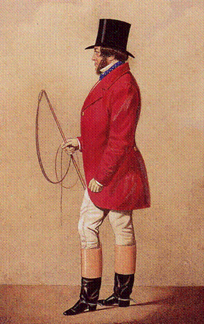 Cartoon of Baron Mayer Amschel de Rothschild, probably by Spy. The print of which this is a scan is clearly dated 1874. Therefore in the public domain by virtue of age.